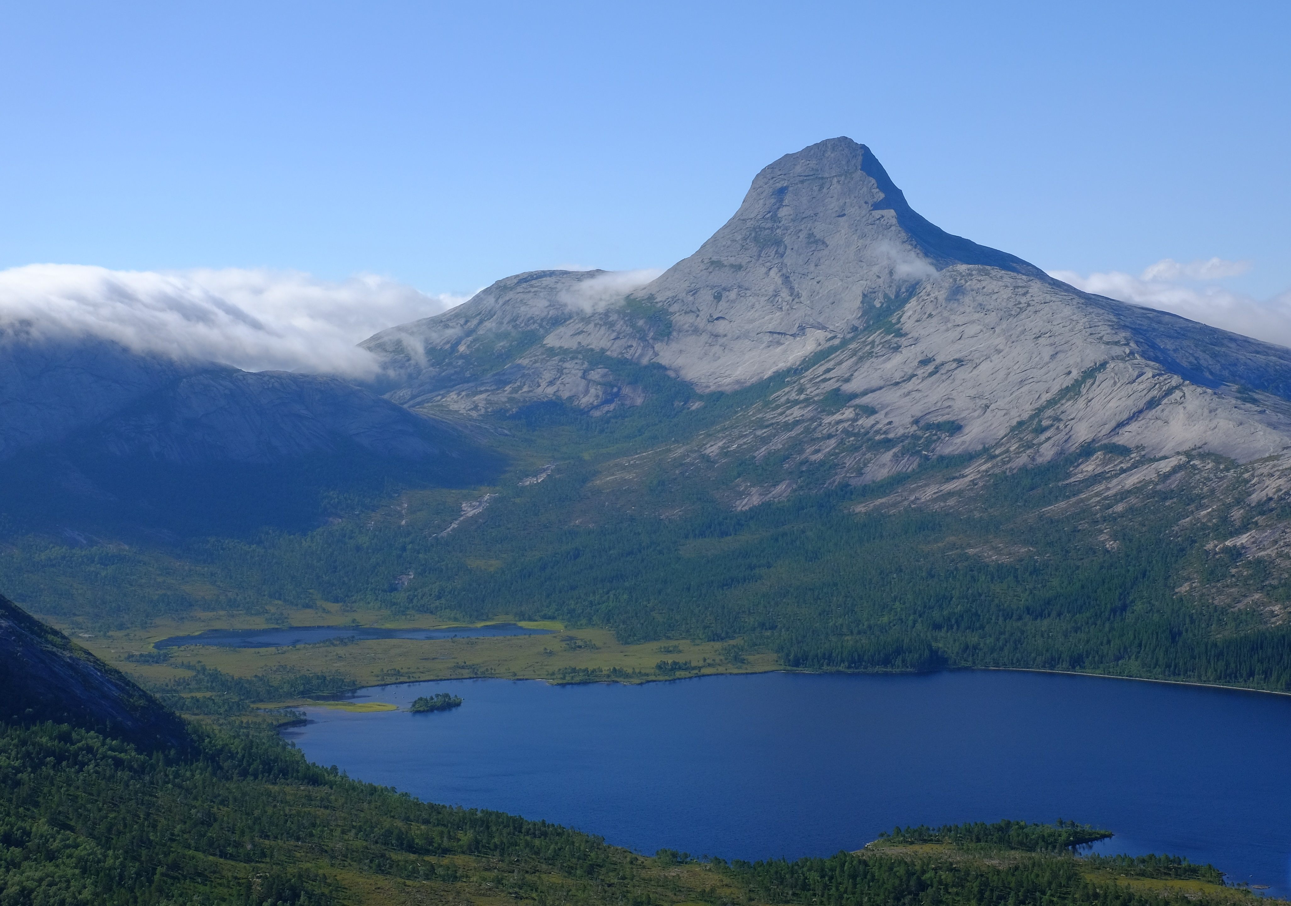 Husbyviktinden peak viewed from the lower parts of the Rørstad valley, Sørfold, Nordland, Norway. The top was attempted climbed by the famous British mountaineer William Cecil Slingsby in 1902. Due to bad weather, he gave up. The area is known for its hundreds of mountain peaks and many fjords.